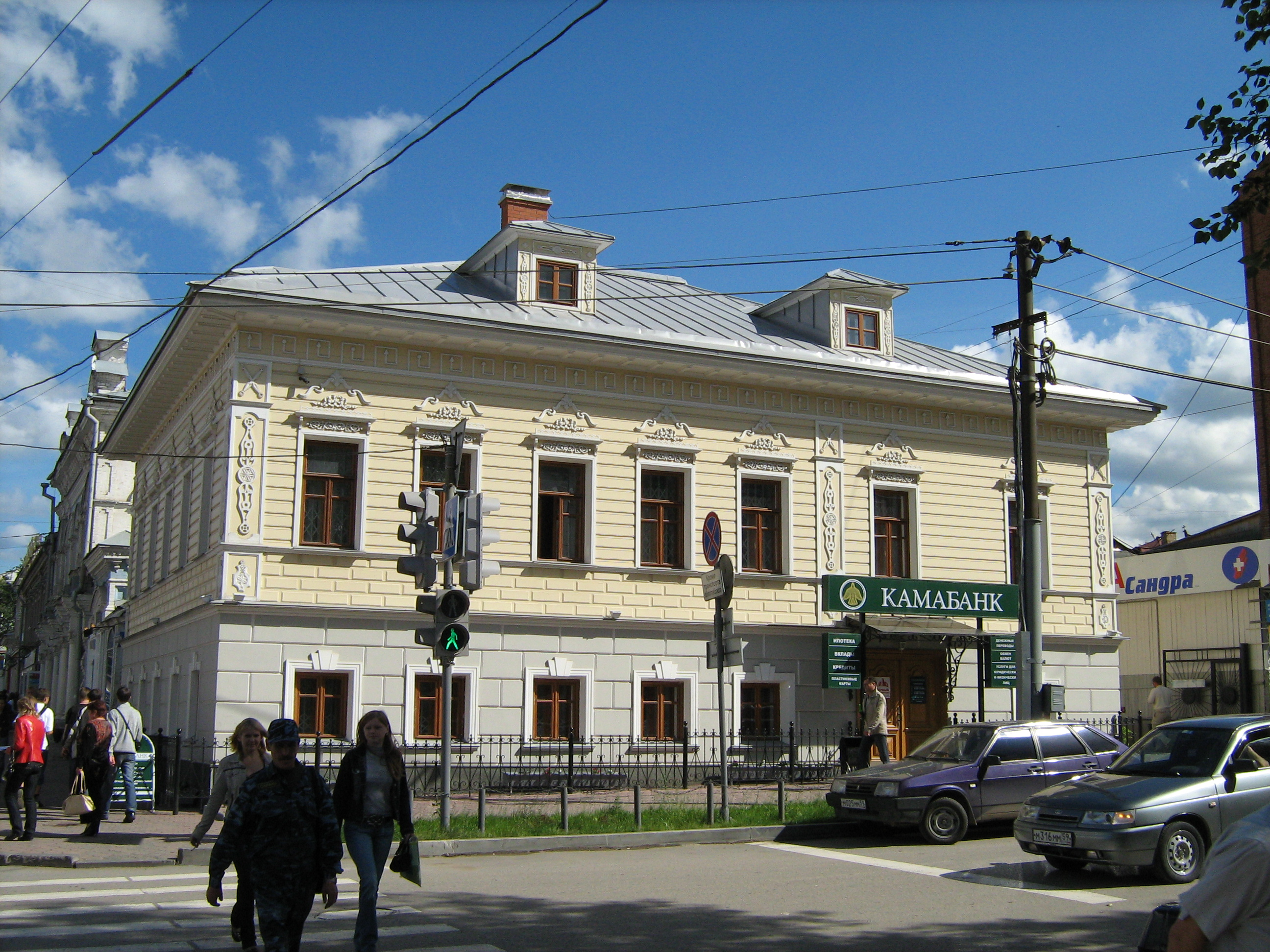 Kamabank office at Lenin Street, Perm